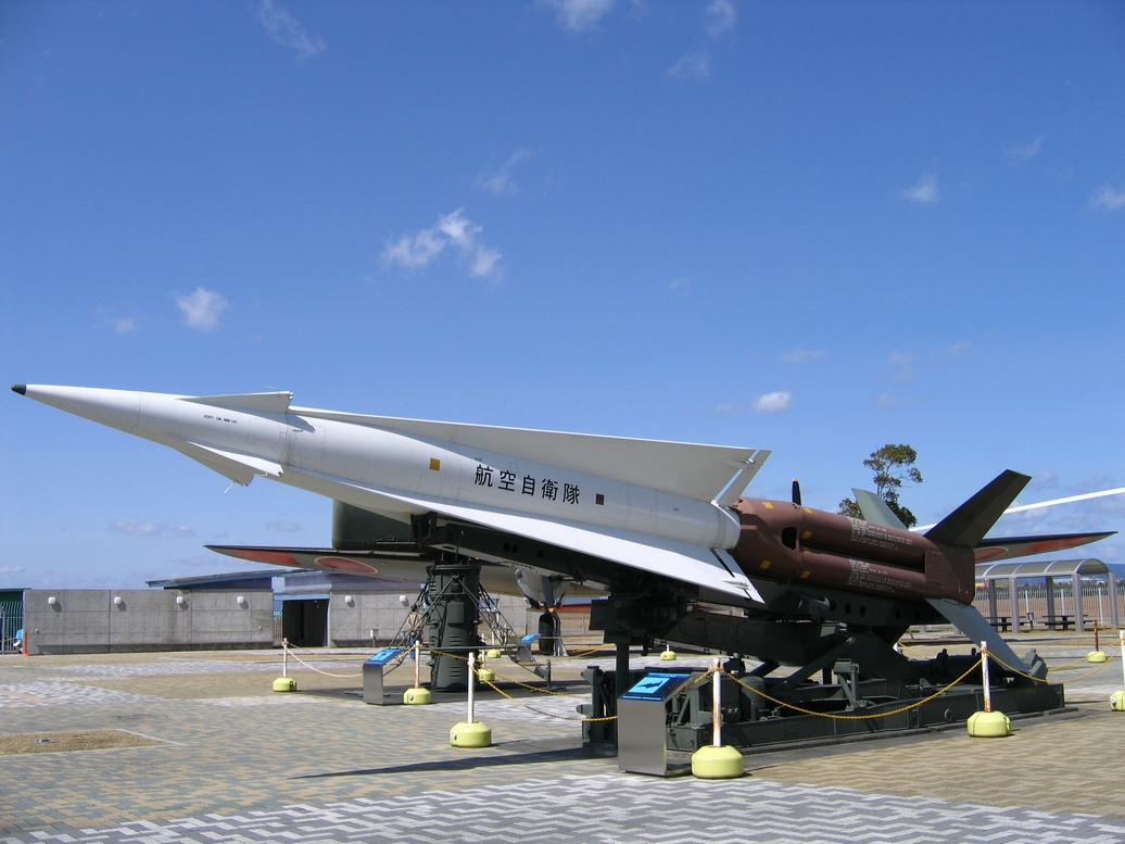 Place - JASDF Hamamatsu Airbase,Hamamatsu City, Shizuoka pref., Japan. Date - March 11, 2007. Phorographer - Fuji-s.